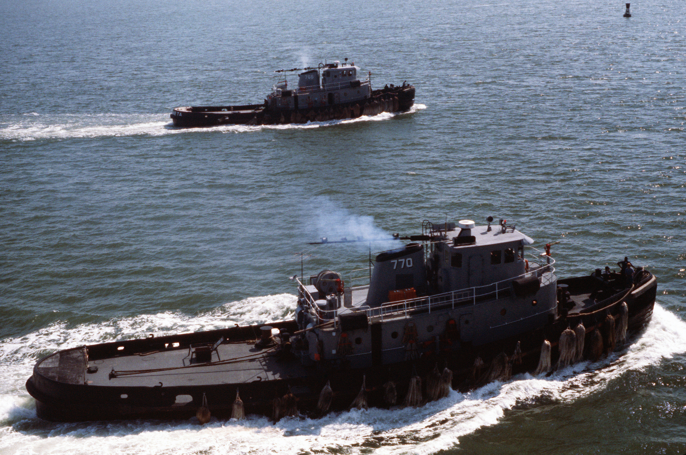 A starboard view of the large harbor tugs WAPAKONETA (YTB 766), background, and DAHLONEGA (YTB 770) underway.